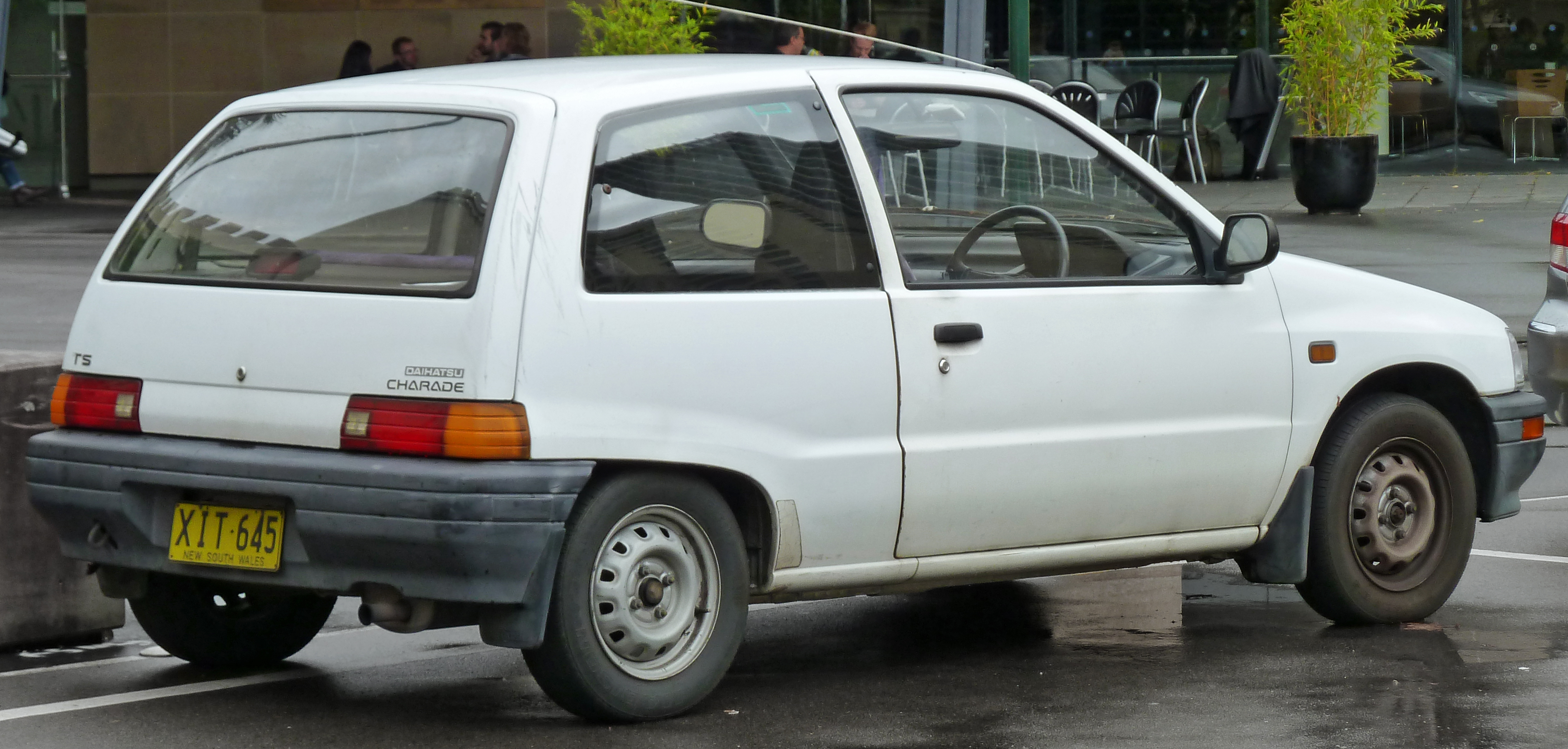 1990 Daihatsu Charade (G100) TS 3-door hatchback. Photographed on Conservatorium Road, Sydney, New South Wales, Australia.